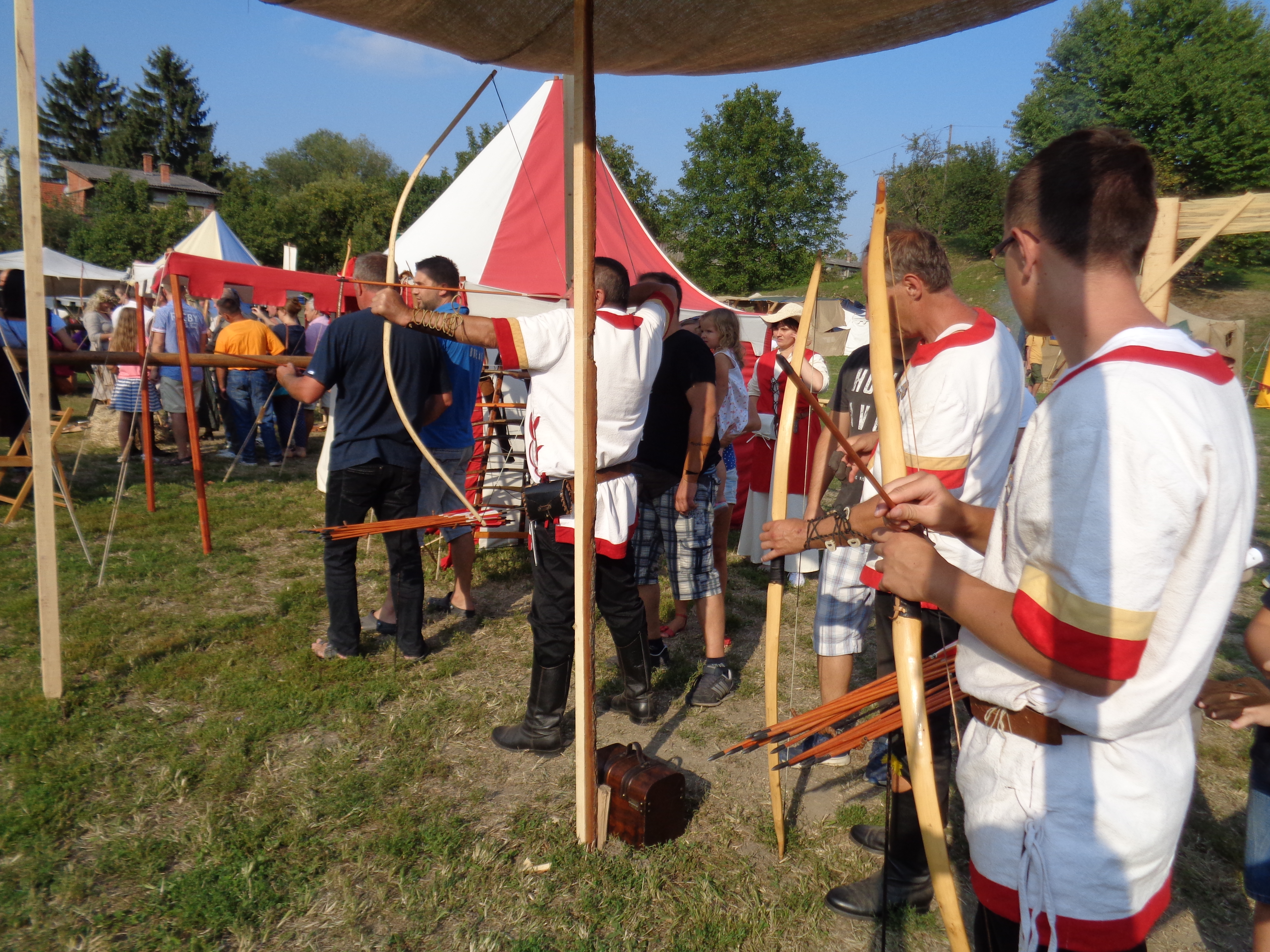 Koprivnica Renaissance Festival, Koprivnica, Croatia (2016) - Trakošćan archers